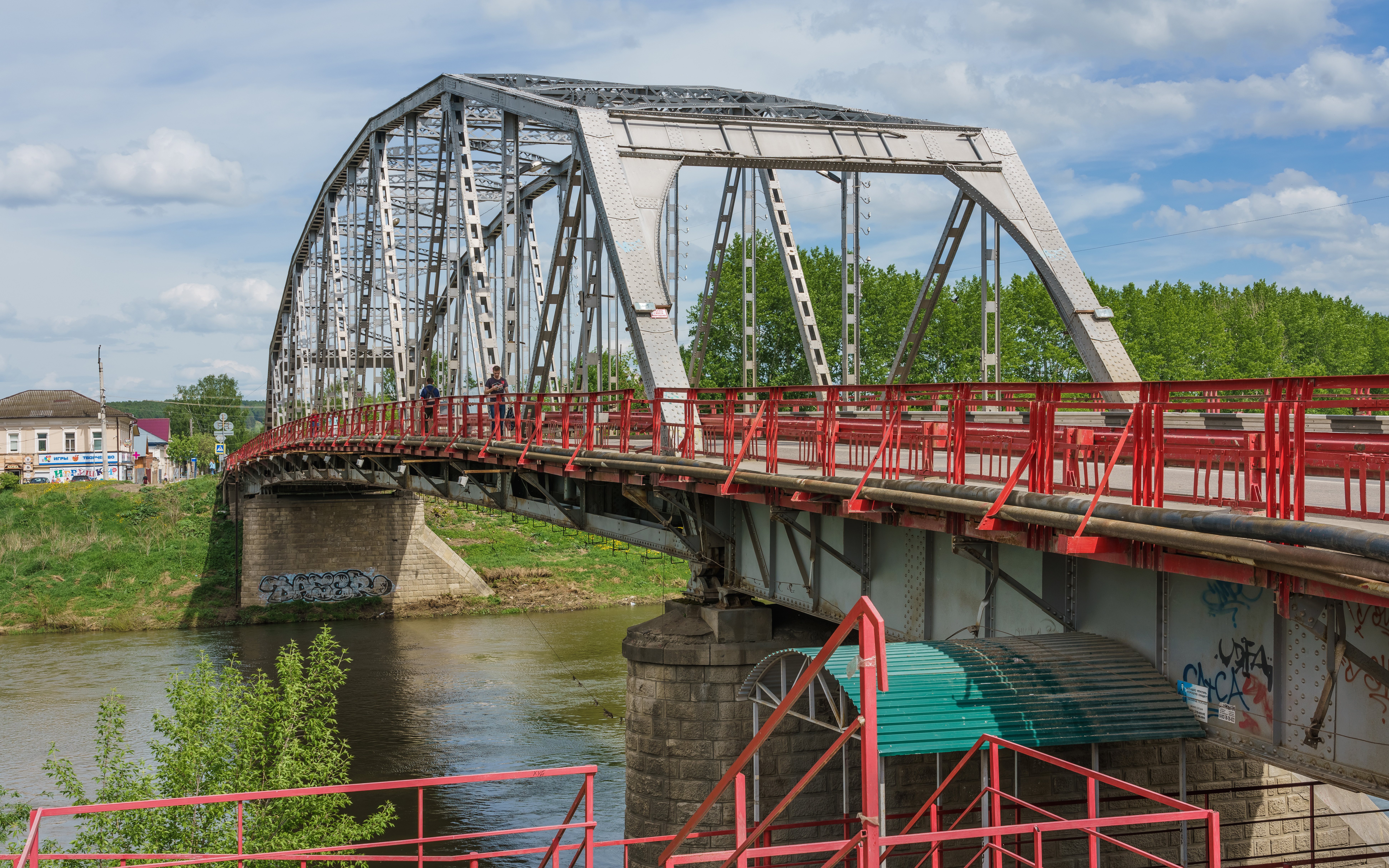 Sylva road bridge in Kungur, Perm Krai, Russia